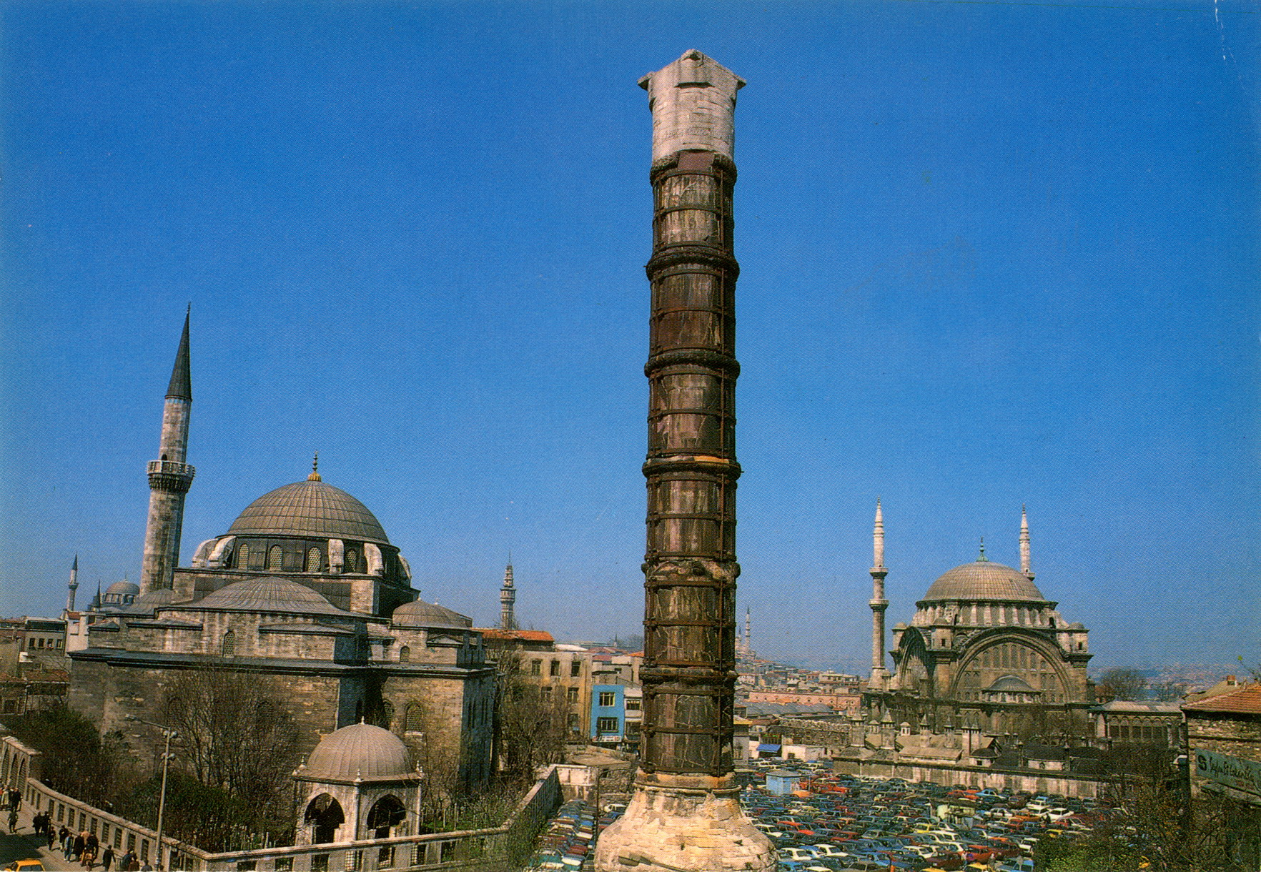 The Column of Constantine in Çemberlitaş, comprises six cylindrical marble pieces held together with metal rings. It was taken from the Temple of Apollo in Rome to Constantinople in 330 A.D., on the order of Constantine I, to celebrate the new capital of the empire. In 1081 the column was partially damaged by a bolt of lightning. Manuel Komnenos I restored the column, adding the marble corinthian head and installing a large cross. After the conquest of İstanbul, the cross was removed. It was lightly damaged by fire in 1672 and the marbles and metal work were restored in 1701. In the early republican period the buildings around the column were demolished in order to give it more prominence. SALT Research, Photography Archive SALT Research, Harika-Kemali Söylemezoğlu Archive SALT Research, Ali Saim Ülgen Archive Çemberlitaş Sütunu, taşlarla örülmüş bir kaidenin üstünde duran, araları metal çemberlerle tutturulmuş silindir şeklindeki altı mermer parçanın oluşturduğu bir dikilitaştır. 330’da İmparator I. Konstantin’in emriyle, Roma’daki Apollon Tapınağı’ndan sökülerek Konstantinopolis’e getirildi. 1081’de yıldırım isabet etmesi sonucu yandı. I. Manuel Komnenos tarafından onarılarak üstüne, günümüzde hâlen yerinde duran mermer korint başlık kondu. 1672’deki yangında büyük zarar gördü; çatlayan mermerler, 1701’de çemberlerle sağlamlaştırıldı ve sütun bundan sonra Çemberlitaş adını aldı. Cumhuriyetin ilanından sonra çevresindeki birçok yapı yıkılarak sütun ortaya çıkarıldı, çeşitli düzenlemelerle bugünkü hâline getirildi. SALT Araştırma, Fotoğraf Arşivi SALT Araştırma, Harika-Kemali Söylemezoğlu Arşivi SALT Araştırma, Ali Saim Ülgen Arşivi